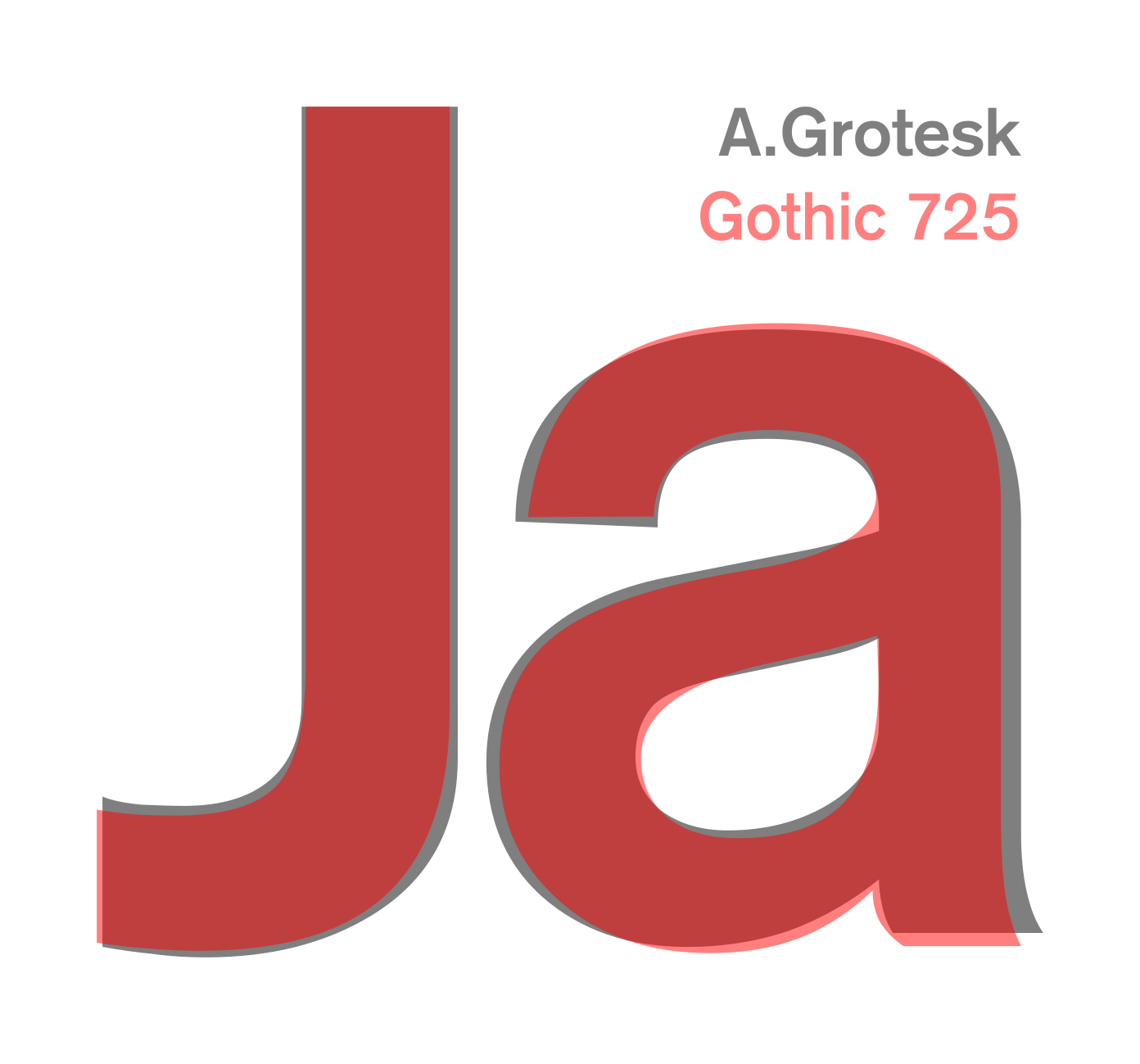 Simple overlay diagram of readily noticeable differences between Akzidenz-Grotesk and its Bitstream digitization, Gothic 725. Created in Inkscape.